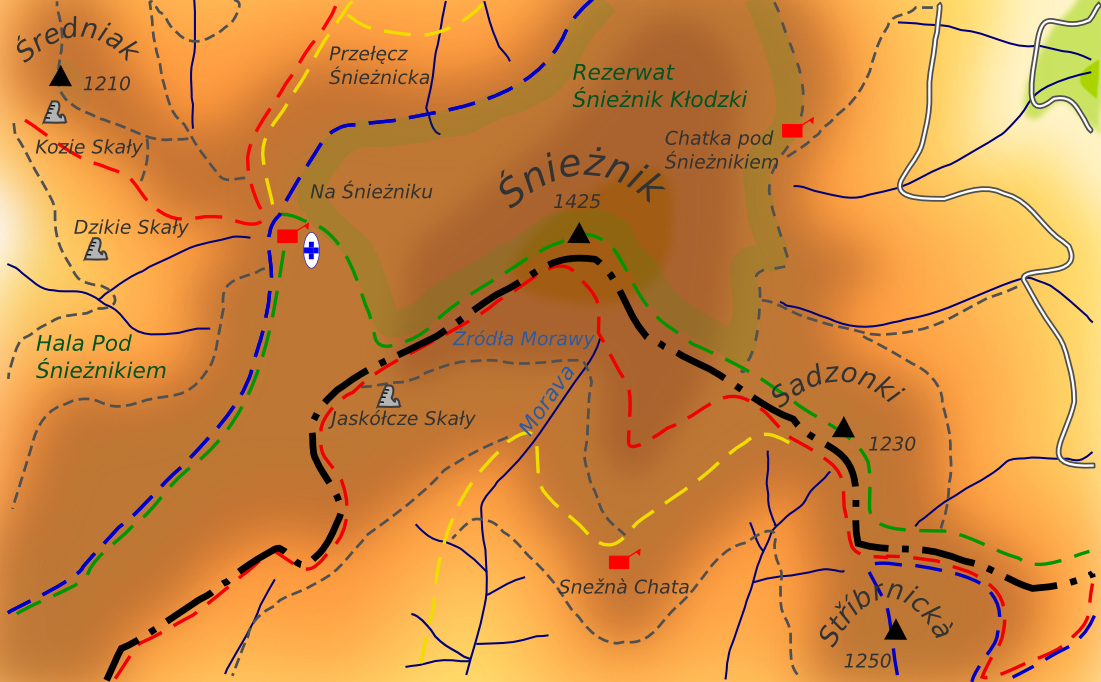 Map of Snieznik